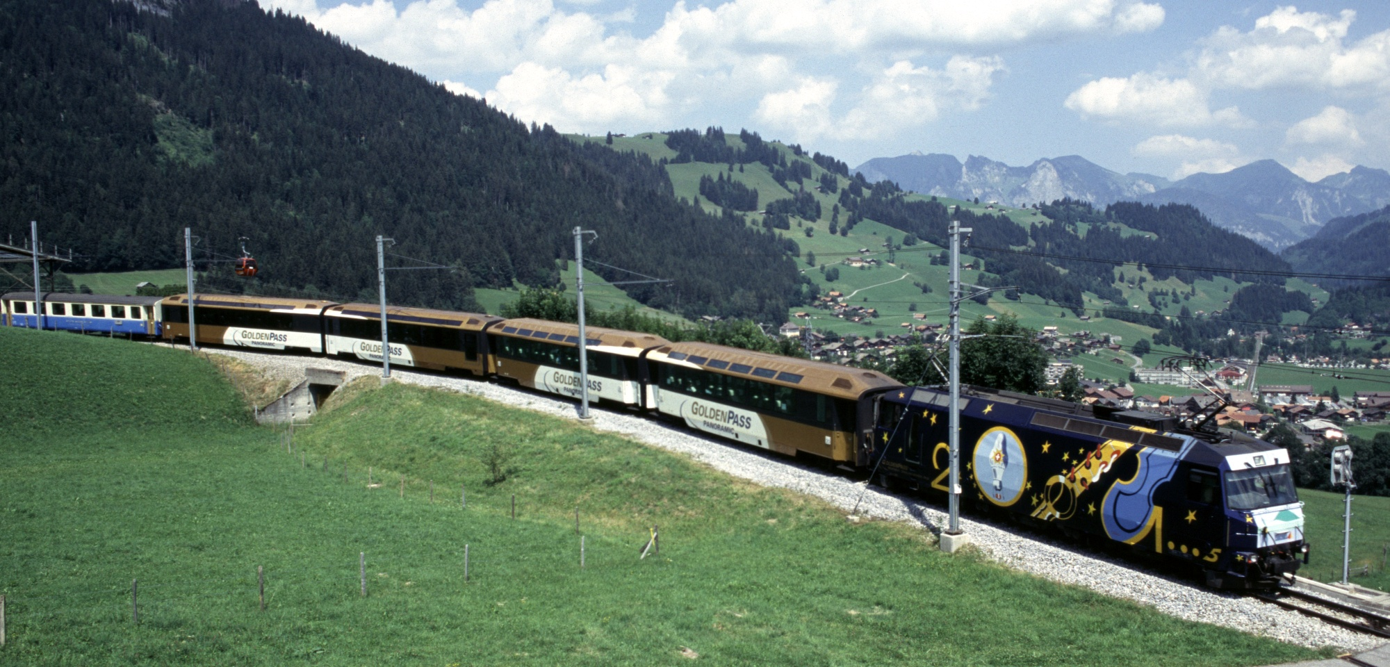 Ge 4/4 with Golden Mountain Panoramic express